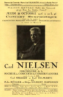 The front page of the programme for the concert on October 21 1926 in Paris where Carl Nielsen's Flute Concerto was performed for the first time.